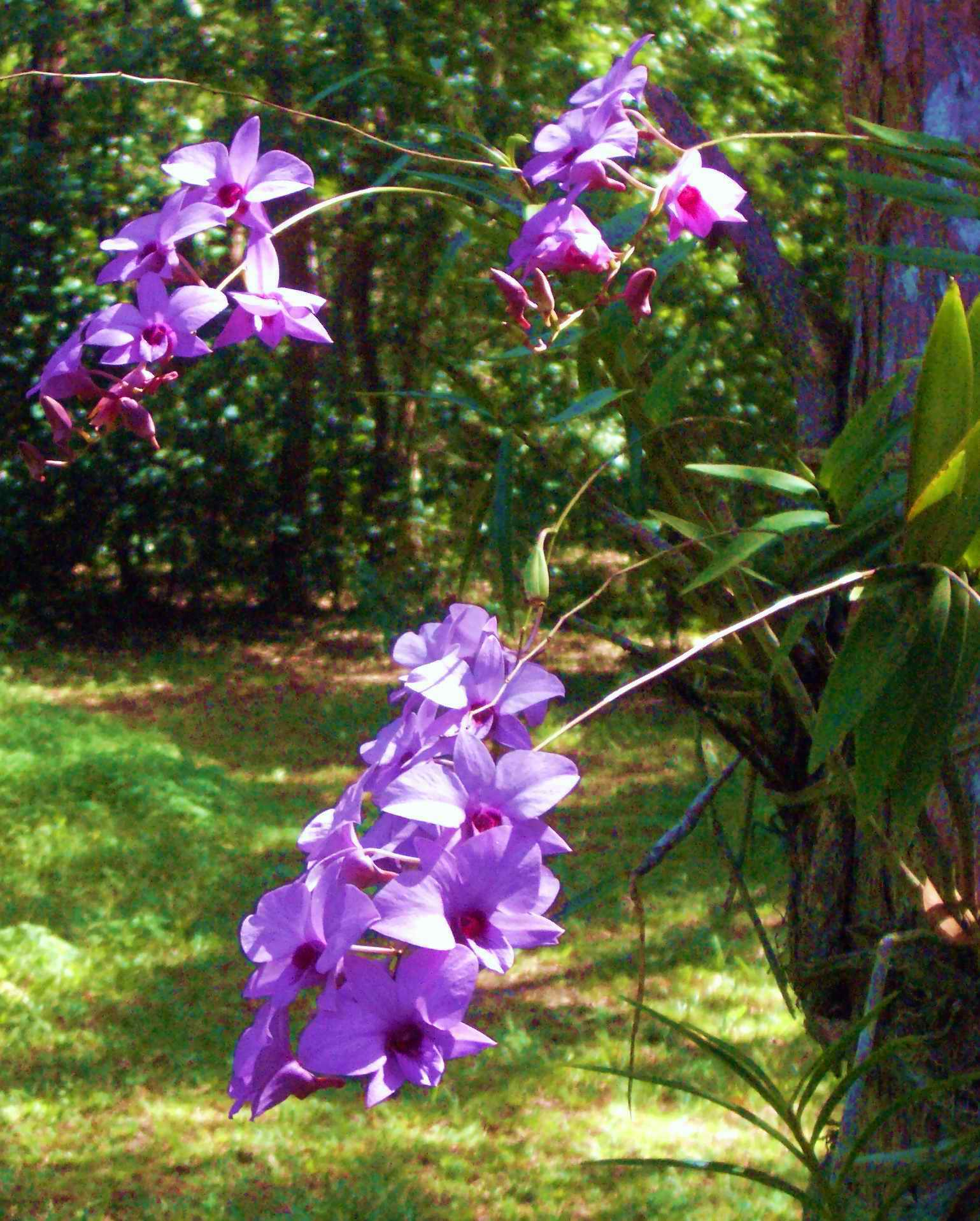 Cooktown orchids, the state floral emblem of Queensland (Australia) grown in my garden only 20 km from Cooktown. They are growing on a Paperbark tree.